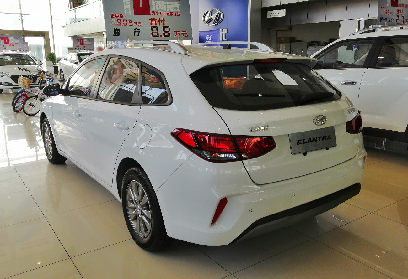 Hyundai Celesta RV photographed in Yinchuan, Ningxia autonomous region, China.